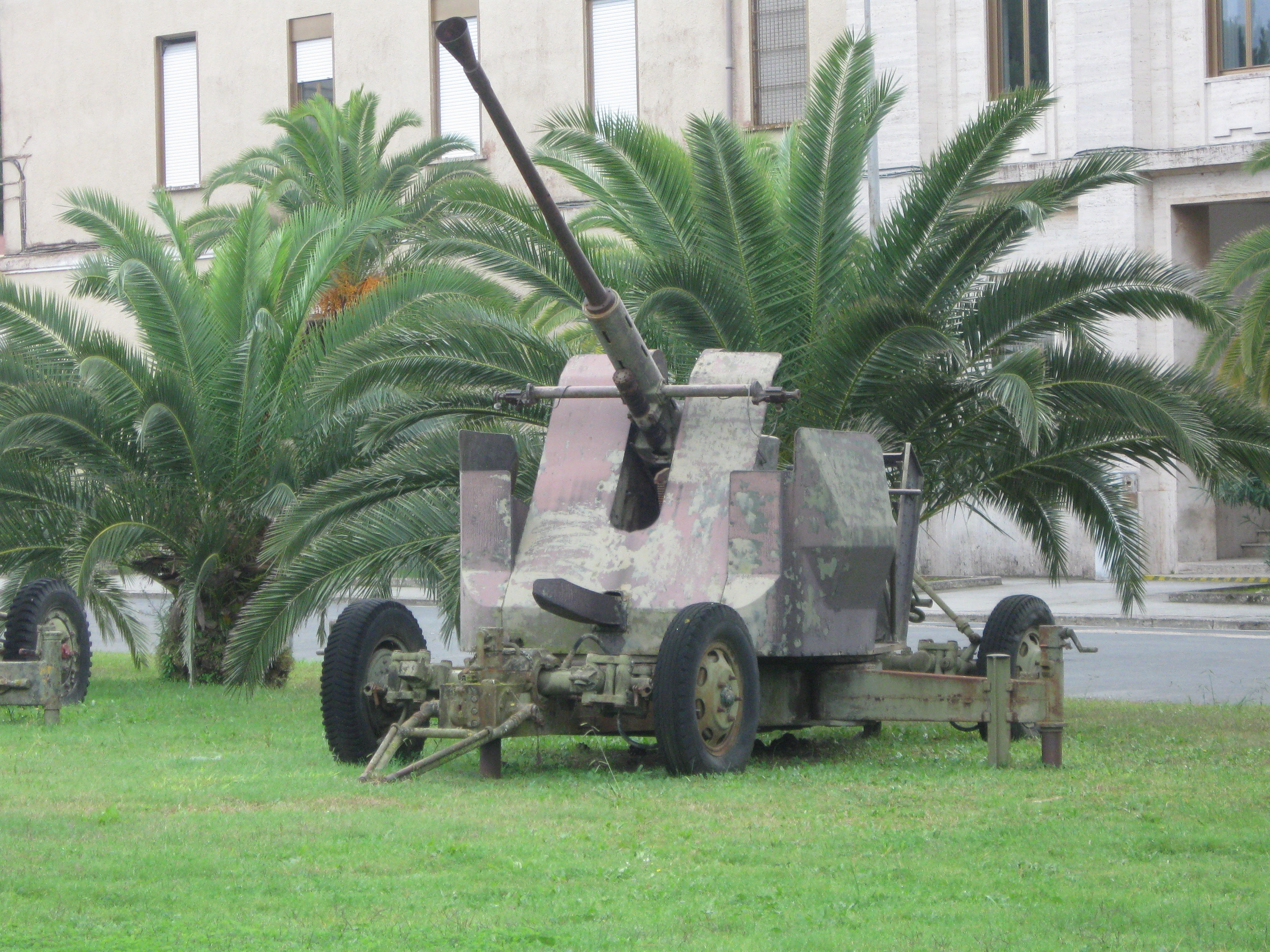 Breda-Bofors 40/70 antiaricraft gun, Sabaudia,Historical Anti-aircraft Artillery Park in the barracks of the 17° Antiaircraft Artillery Regiment